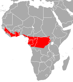 Halcyon Horseshoe Bat (Rhinolophus alcyone) range